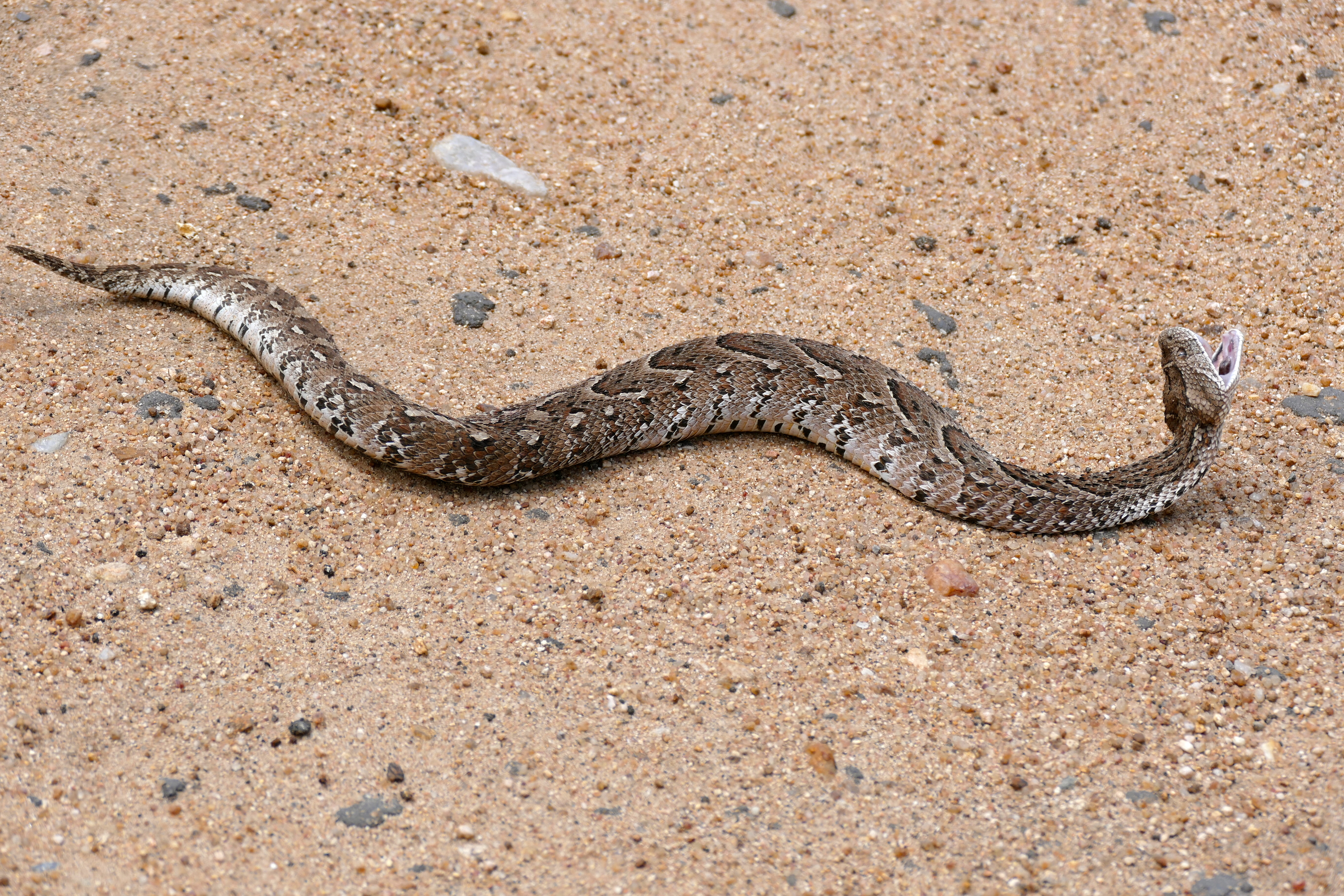 S114 Road South of Skukuza, Kruger NP, SOUTH AFRICA